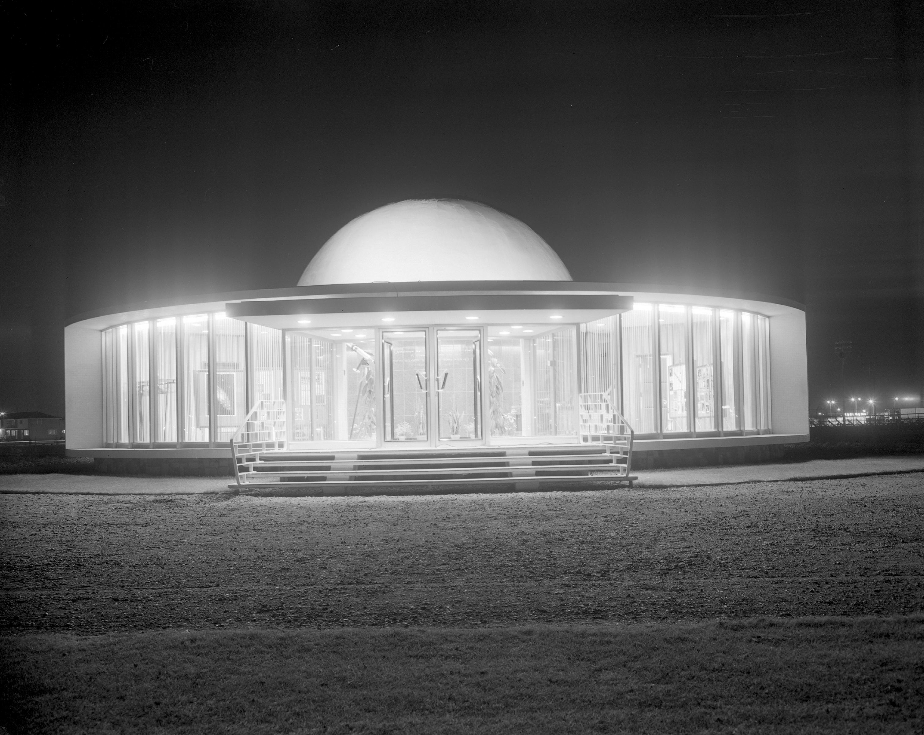 Provincial Archives of Alberta, PA58.13.